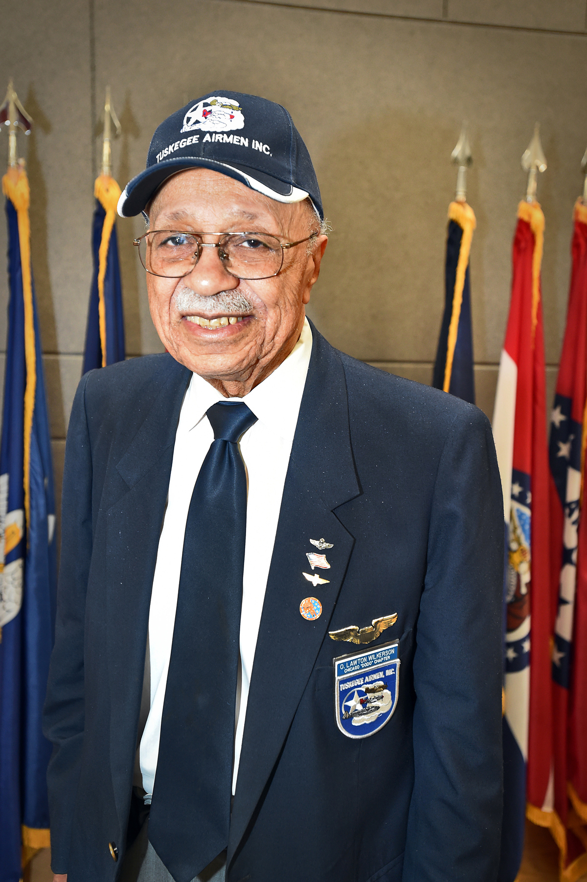 Oscar Lawton “Wilk” Wilkerson, native Chicagoan and Tuskegee Airman, pauses for a photo during the Army Reserve’s 85th Support Command’s African American/Black History Month observance at their unit headquarters, Feb. 7. During the observance, Wilkerson discussed his experiences in the service and held a questions and answers portion with the soldiers there. (U.S. Army photo by Sgt. Aaron Berogan/Released)